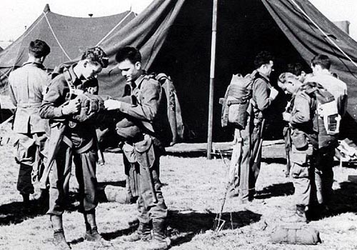 Members of the 466th PFAB prepare for Operation Varsity.